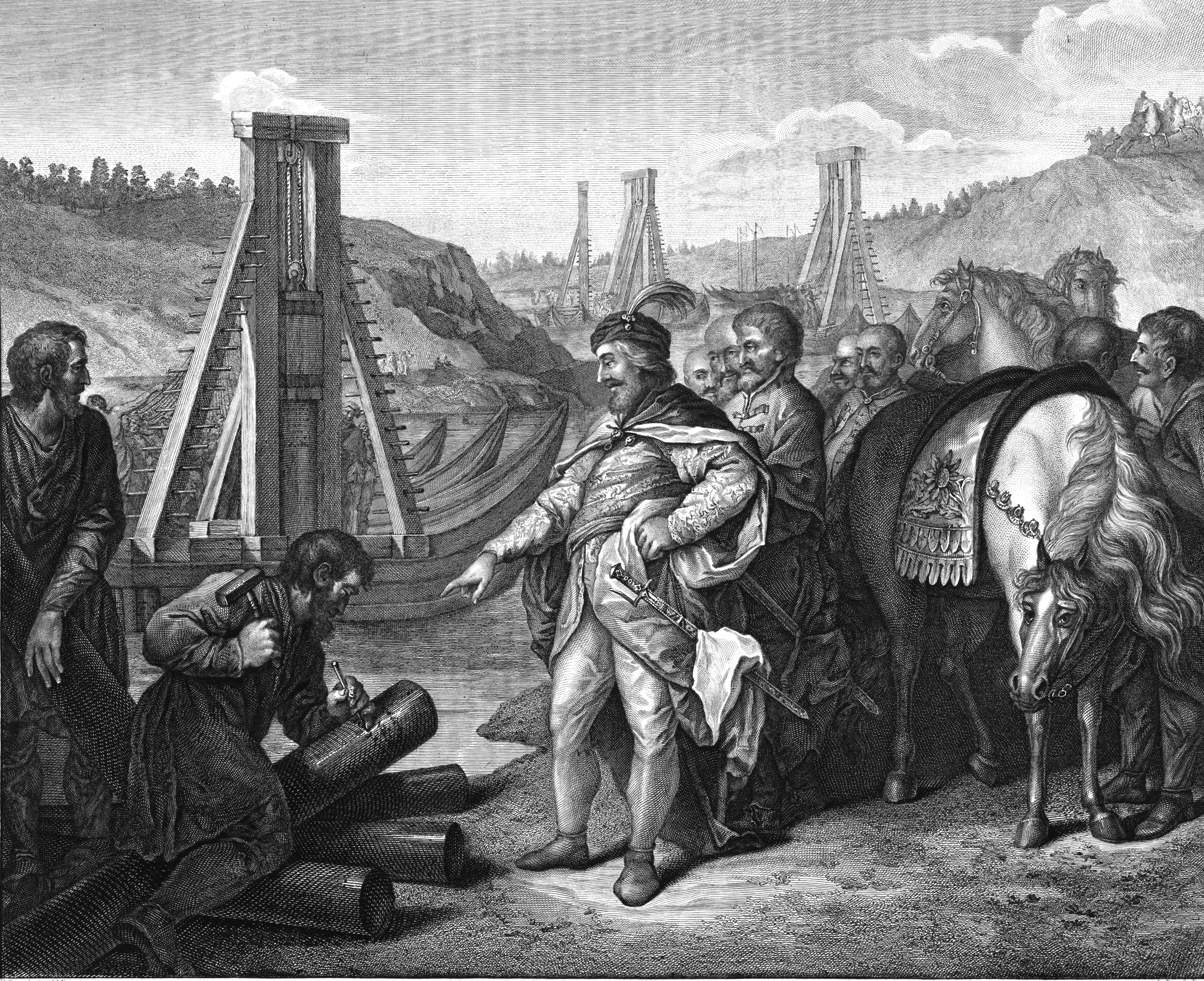 Bolesław I of Poland sticks frontier poles in Elbe and Saale